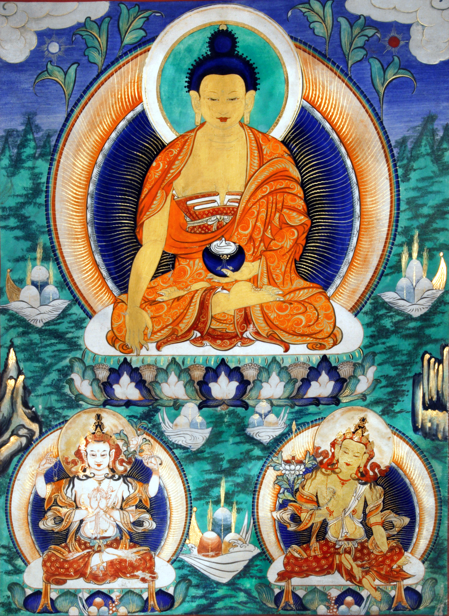 19th Century Mongolian distemper with highlights of gold, depicting Shakyamuni flanked by Chenrezig and Manjushri